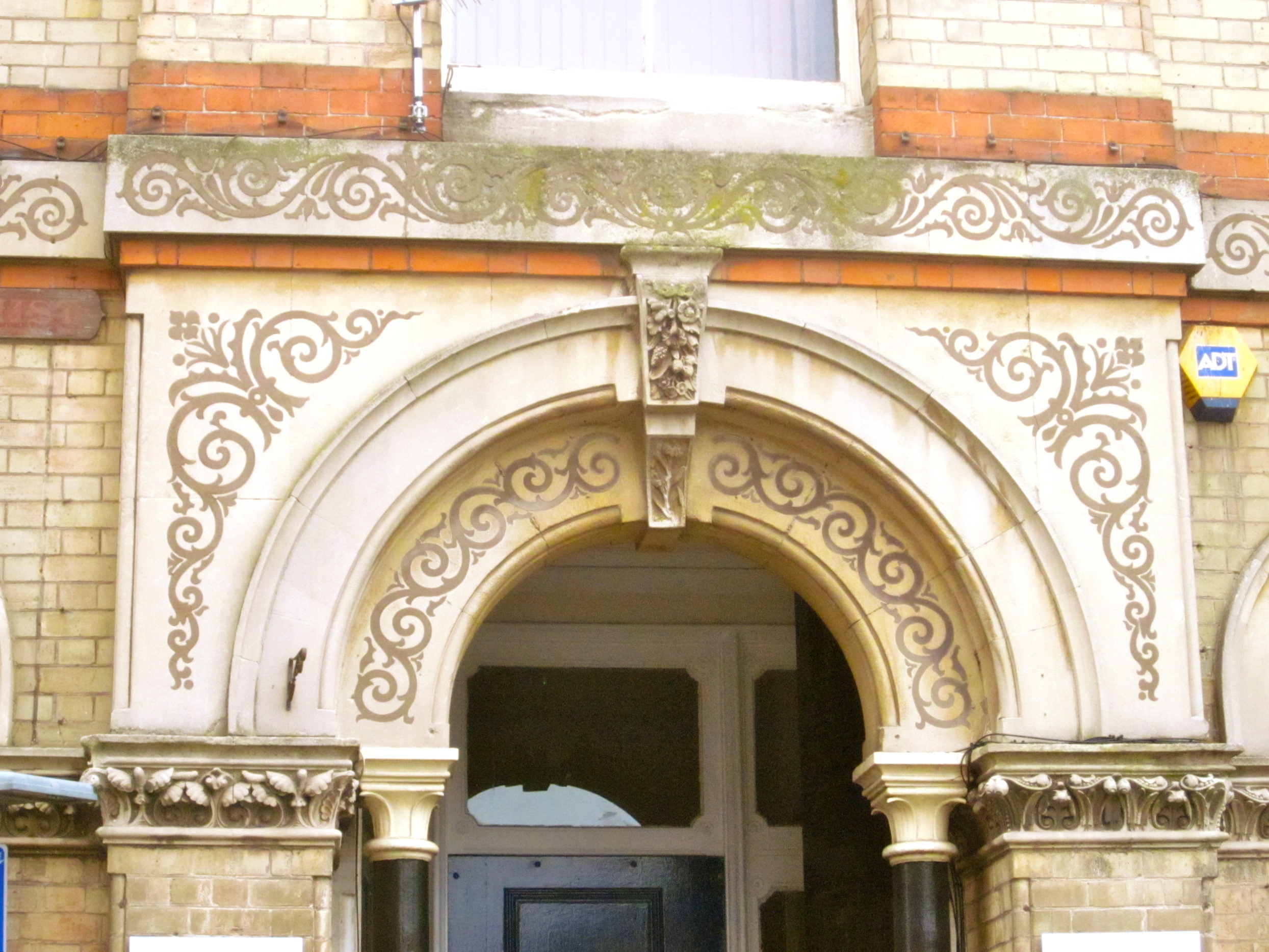 Entrance, Punch House, Market Place, Horncastle